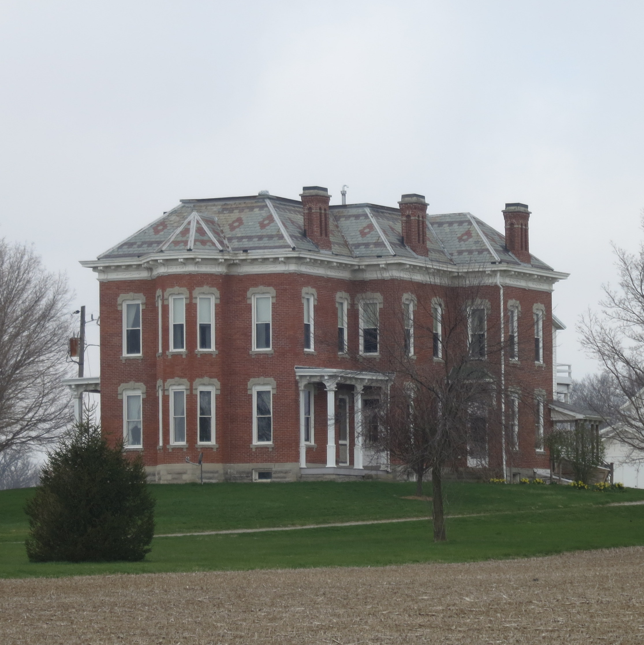 The Fort (North Lewisburg, Ohio) - view from N Lewisburg Road 2